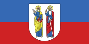 Flag of Uzda and Uzda district, Belarus